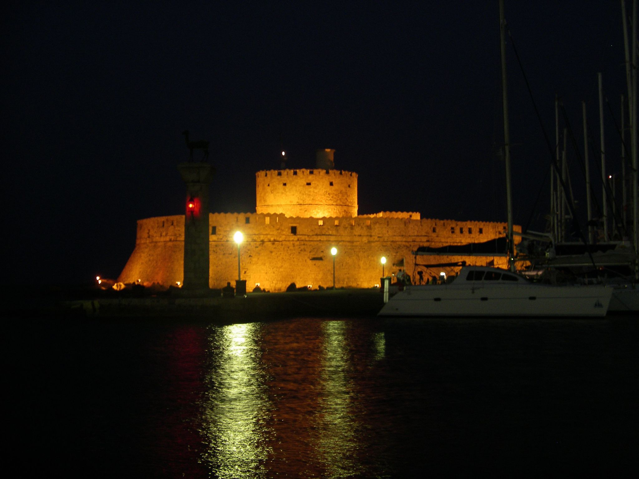 Mandraki harbour and medieval castle in Rhodes.